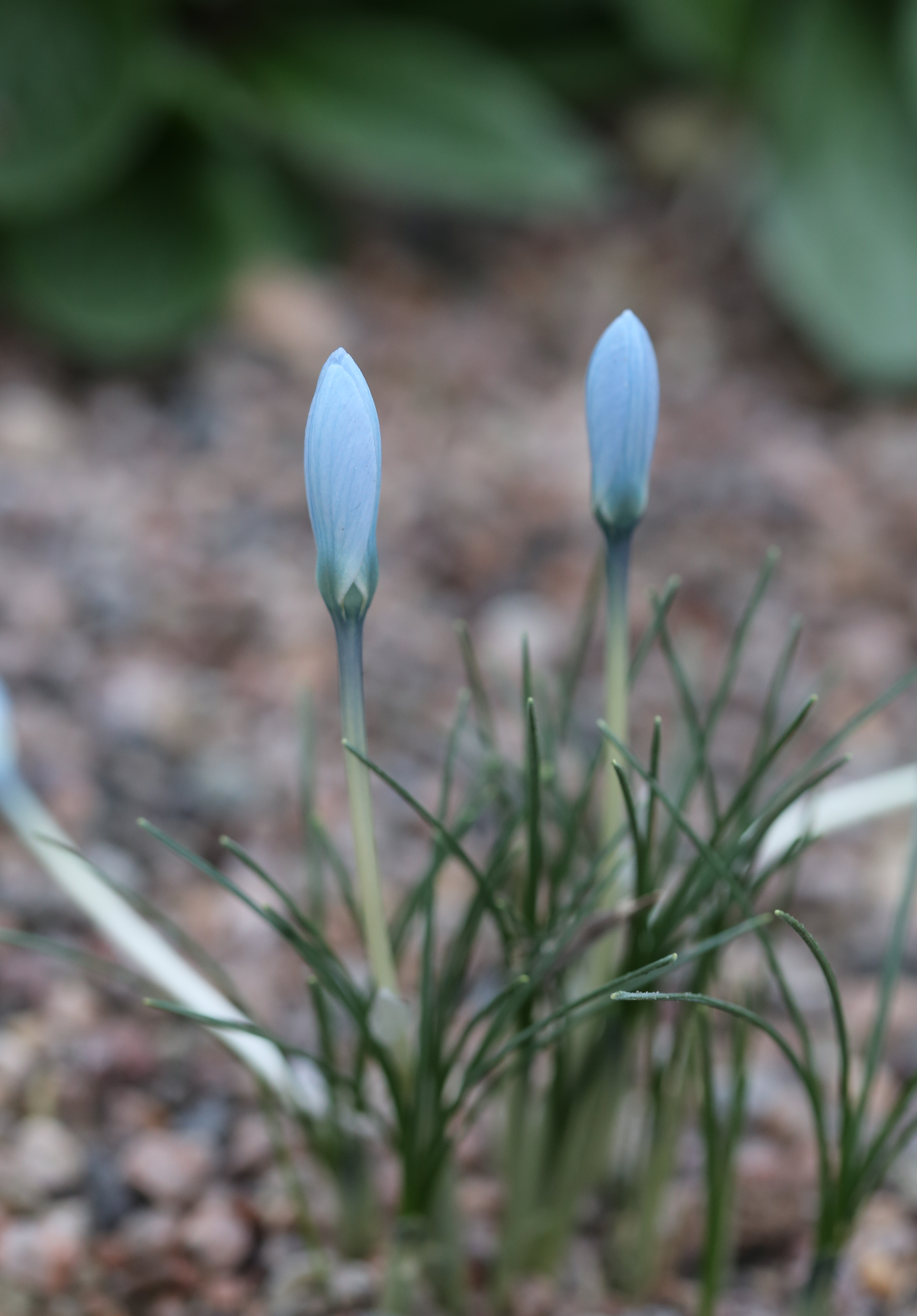 Crocus baytopiorum at Gothenburg botanical garden in 2015. Plant id: 2004-1864 p W; Kletzing